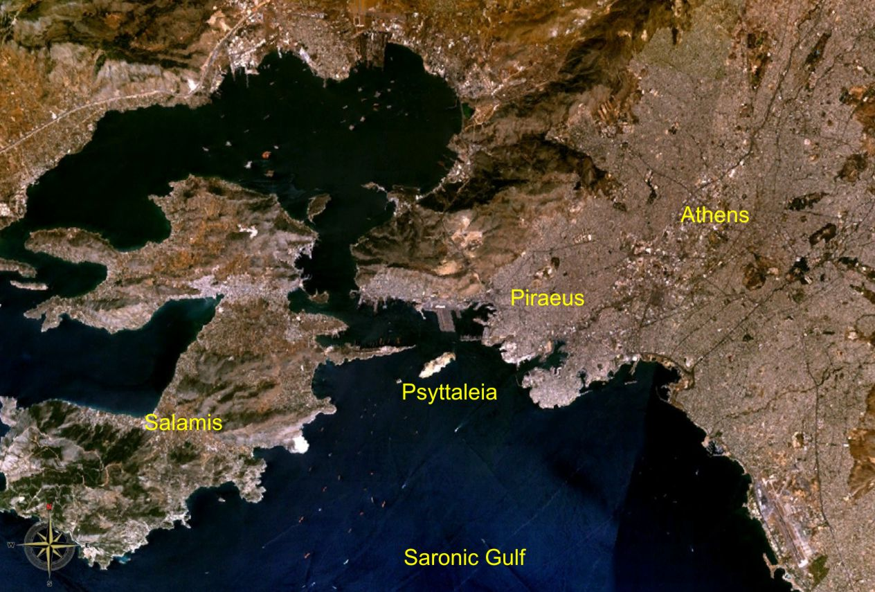 Location of Psyttaleia island in the Saronic Gulf. Sat images from NASA World Wind.